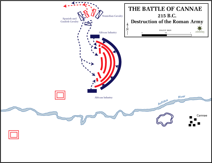 Second Punic War, The Battle of Cannae; destruction of the Roman army (red color) by Hannibal's forces (blue)